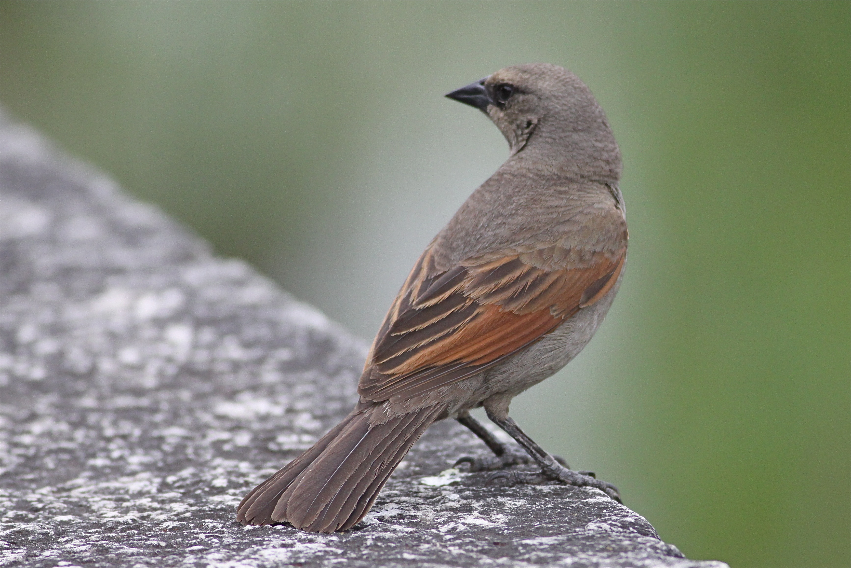 Bay-winged Cowbird at Costanera Sur Nature Reserve, Buenos Aires, Argentina.